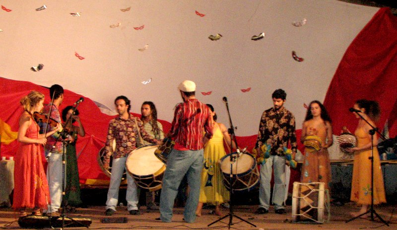 Seu Estrelo e o Fuá do Terreiro preparando-se para tocar o samba pisado, logo depois da matéria no Jornal Nacional. :) Tirada pelo Padim (Cícero Fraga), na festa Fim de Ano no Terreiro, dia 09/12/2006.